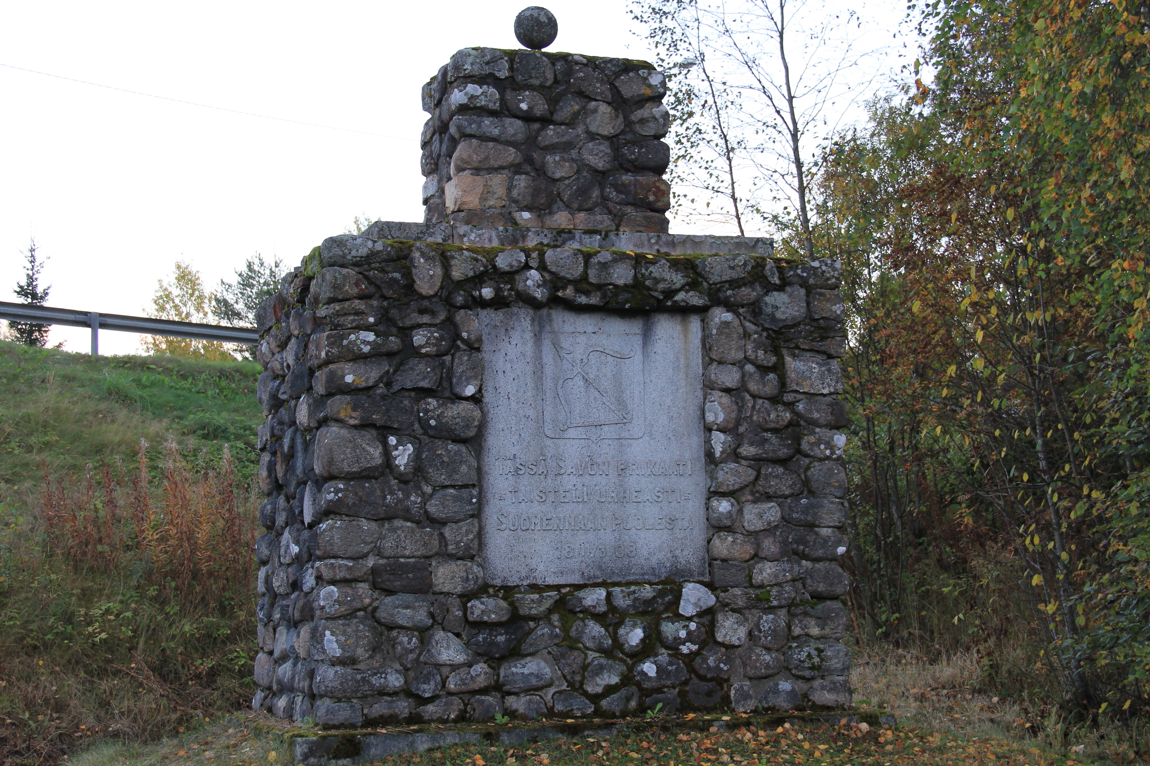 Kalmalahti battle memorial, Leppävirta, Finland. - Unveiled in 1933, designed by architect J. Nykänen.